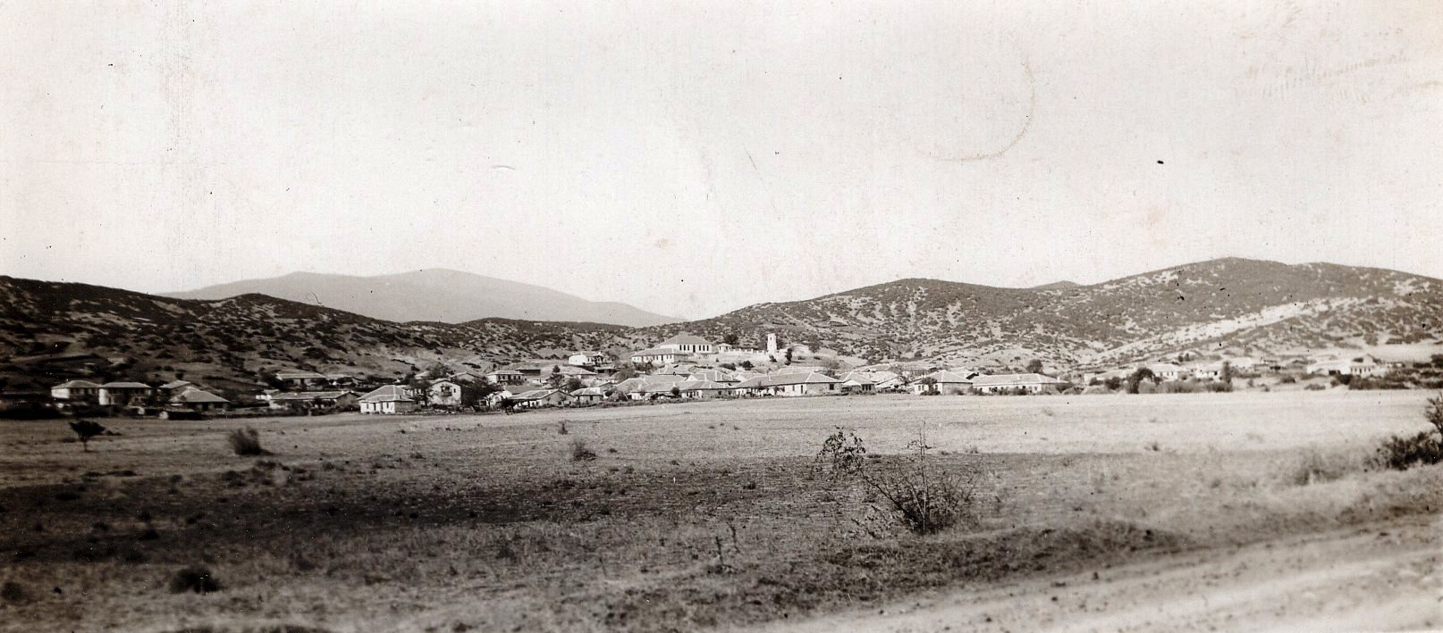 Village Smokvica (Gevgelija), 1931 This media file is produced by Wikipedian in Residence in Category:Wikipedian in Residence at DARM in 2016.